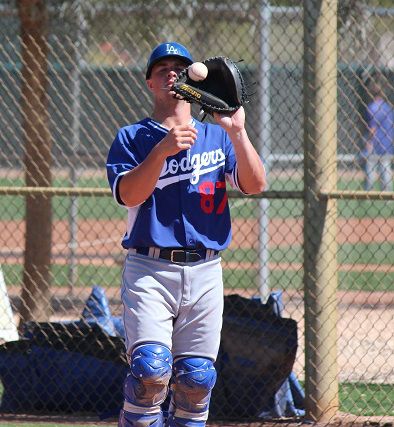 Kyle Farmer